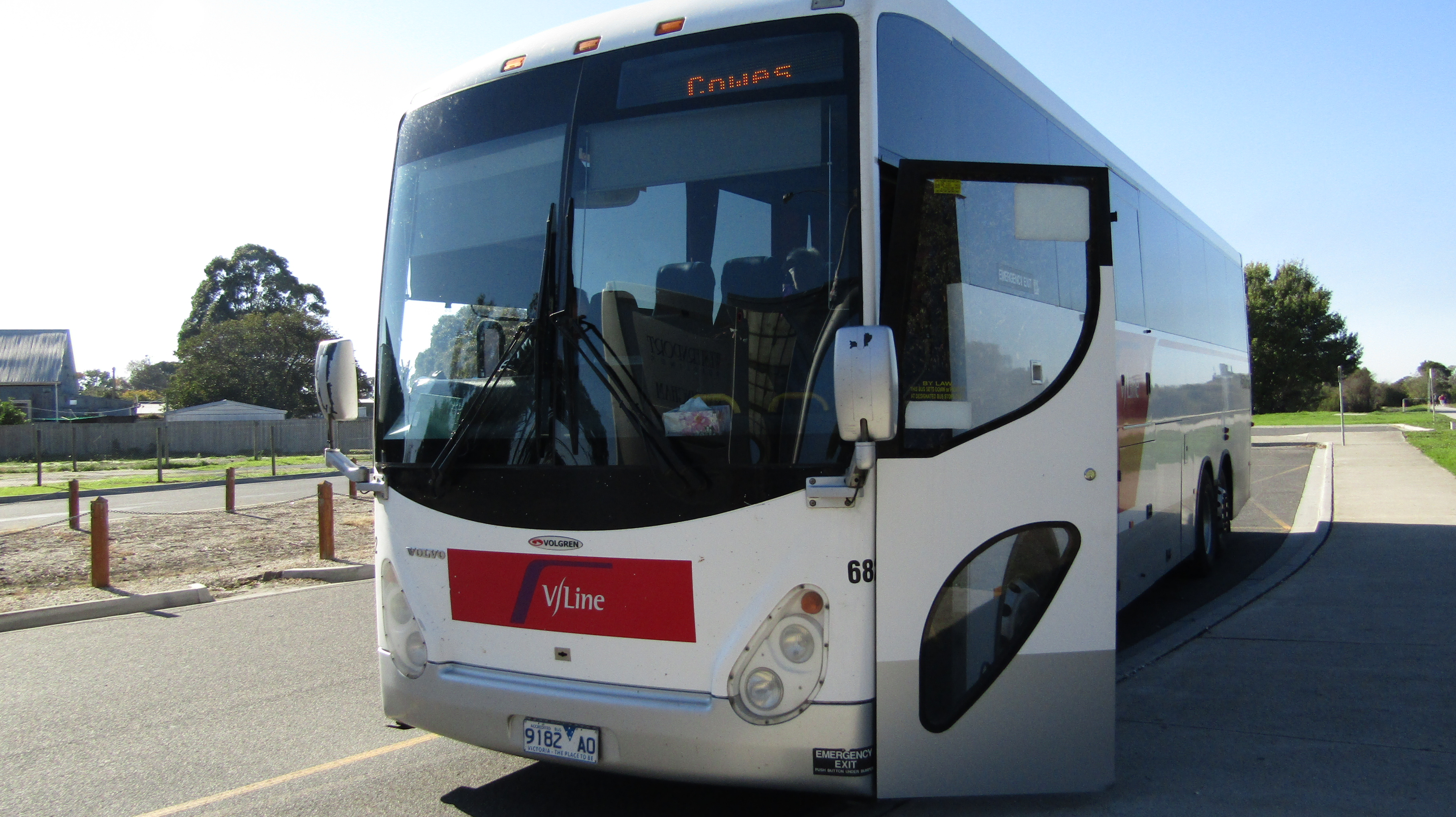 Ventura V/line Volvo B13R Volgren "C222TX" at Koo-Wee-Rup in April 2016.